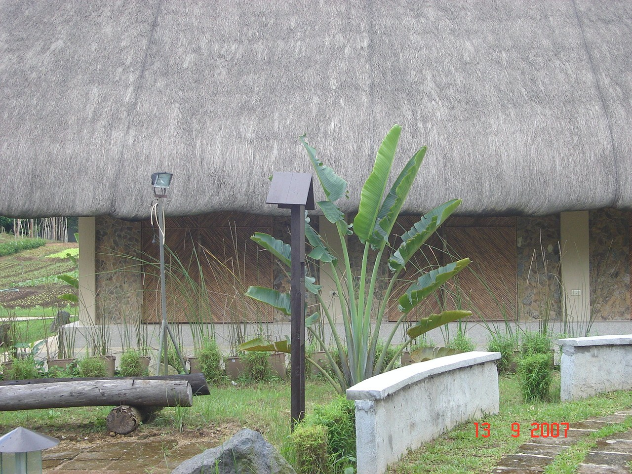 A photo from the Oasis of Prayer, an annex/retreat location of the Rogationist College of Silang, Cavite, Philippines